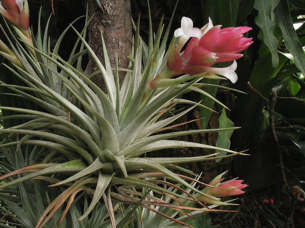 Tillandsia stricta var. albifolia in cultivation at the Botanical Garden of Heidelberg, Germany.